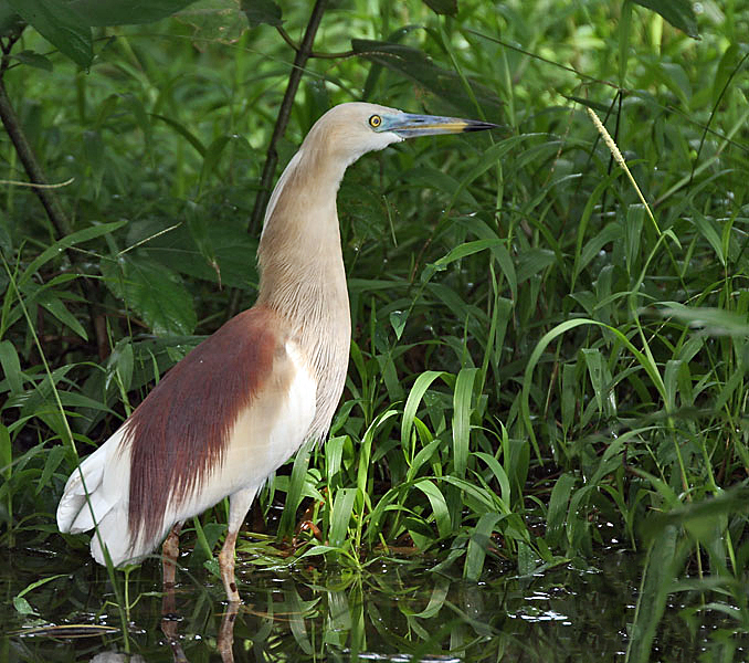 Indian Pond Heron Ardeola grayii in Kolkata, West Bengal, India.